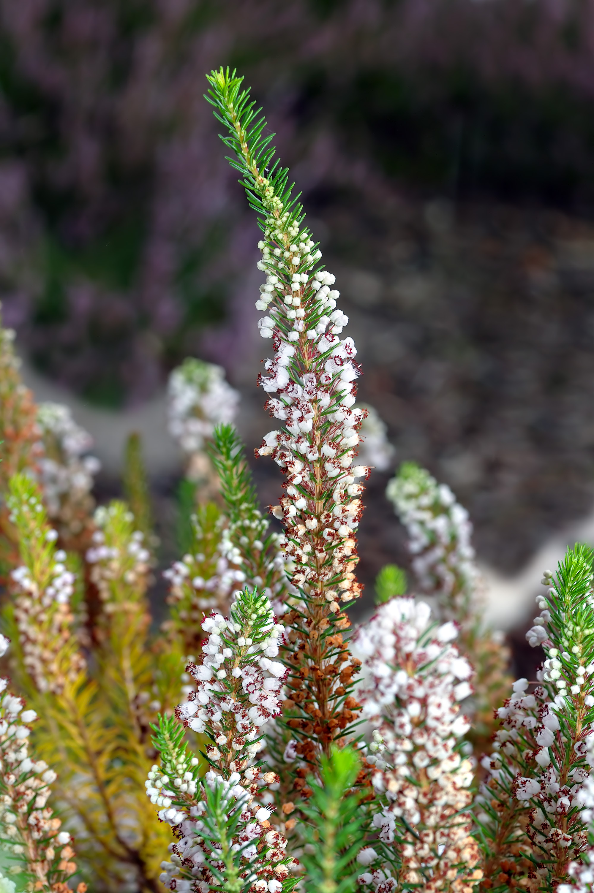 This image shows a Cornish heath plant close-up (Erica vagans).